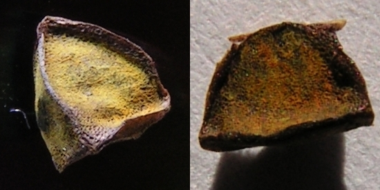 The seeds of Kniphofia uvaria. Length of the seed is appr. 3 mm.